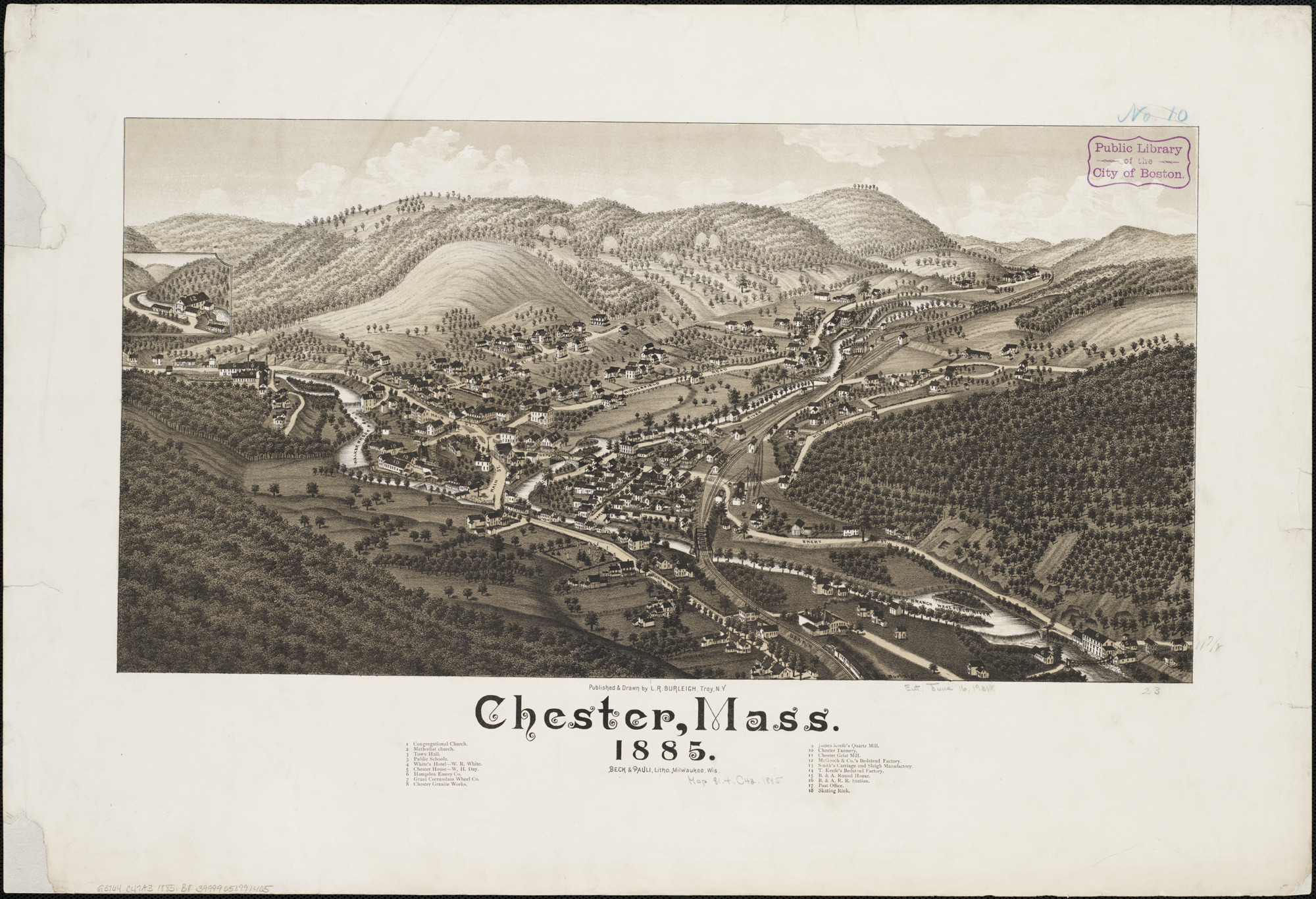 Zoom into this map at . Author: Burleigh, L. R. Publisher: L.R. Burleigh Date: [1885] Location: Chester (Mass.) Scale: Not drawn to scale. Call Number: G3764.C47A3 1885.B8